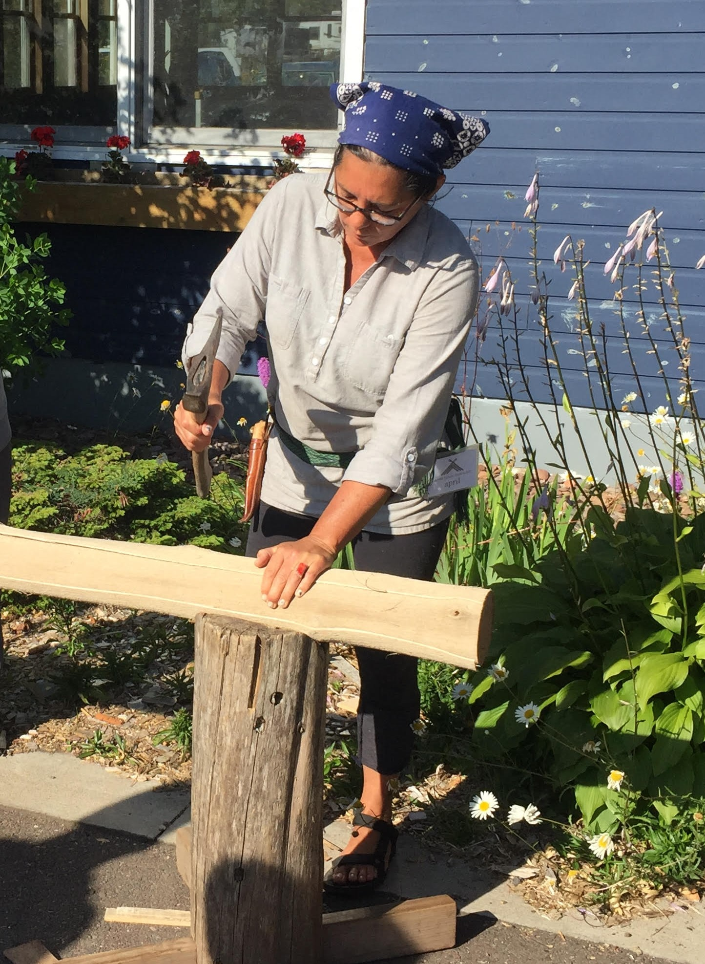 Objibwe Weaver April Stone pounding a black ash log into splints to use for basket weaving. Taken at North House Folk School in 2019.